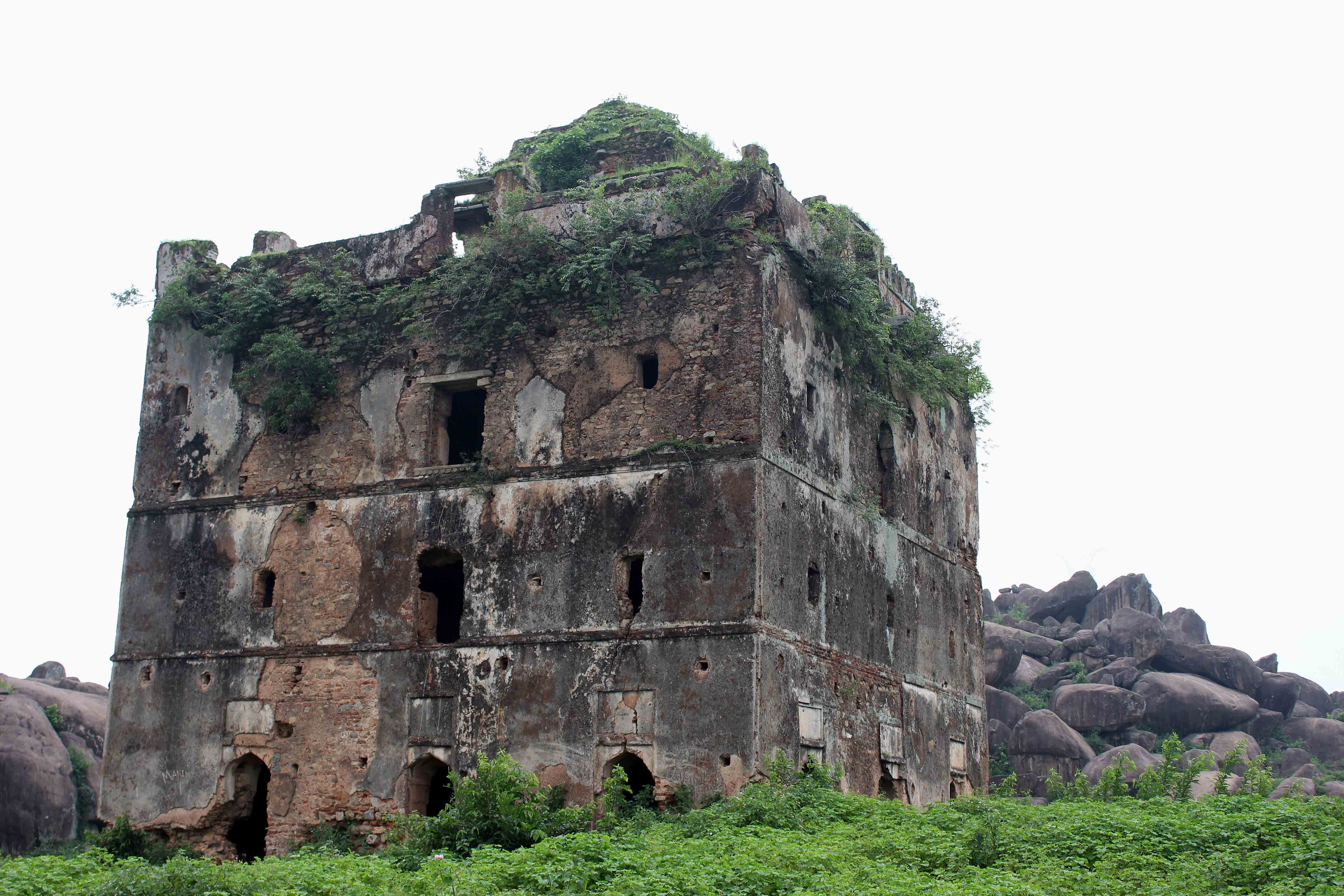 This palace is known as Nawratan. Its in Doisa, a village of historical antiquities about 40 miles south-west of Ranchi in Jharkhand state of India. Raja Ragunath Sahi of Chota Nagpur built the local fort and the palace some time early in the 18th century. Another tradition says that they were built in the time of Raja Durjan Sal. Both the traditions, however, say that the Raja (king) stayed here only for a few years and deserted the place at the instance of Brahman, who declared the site inauspicious and removed to Palkot. It was built of bricks and had five storeys, each containing nine rooms. The main object of interest in it was the so called treasure house, full of quaint niches and arches, in which the children of the family, and also it said, Raja and Rani, used to play hide and seek.